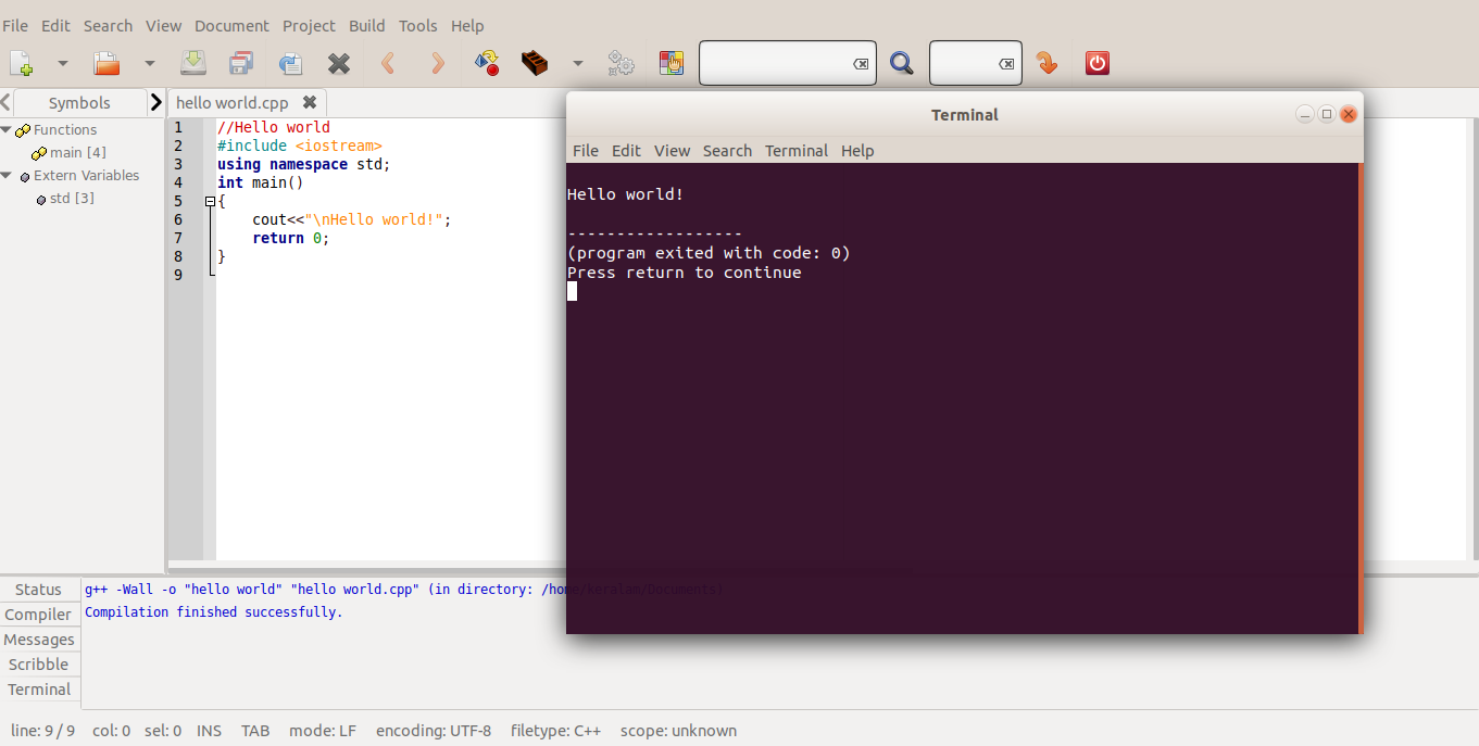 This is an example c++ program written using Geany IDE.